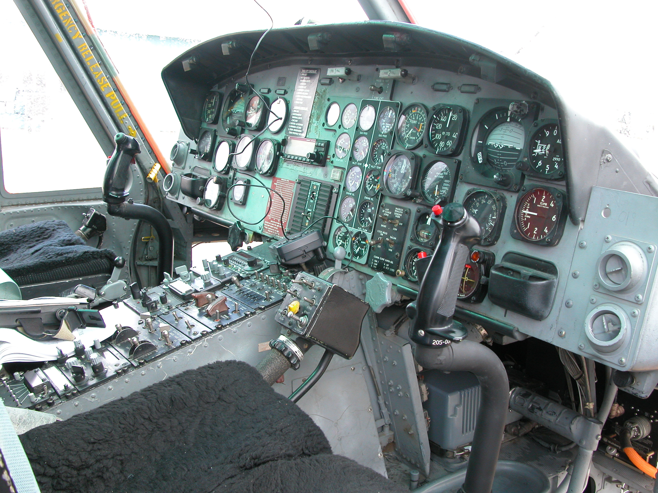 U.S. Navy Bell HH-1N/212 cockpit